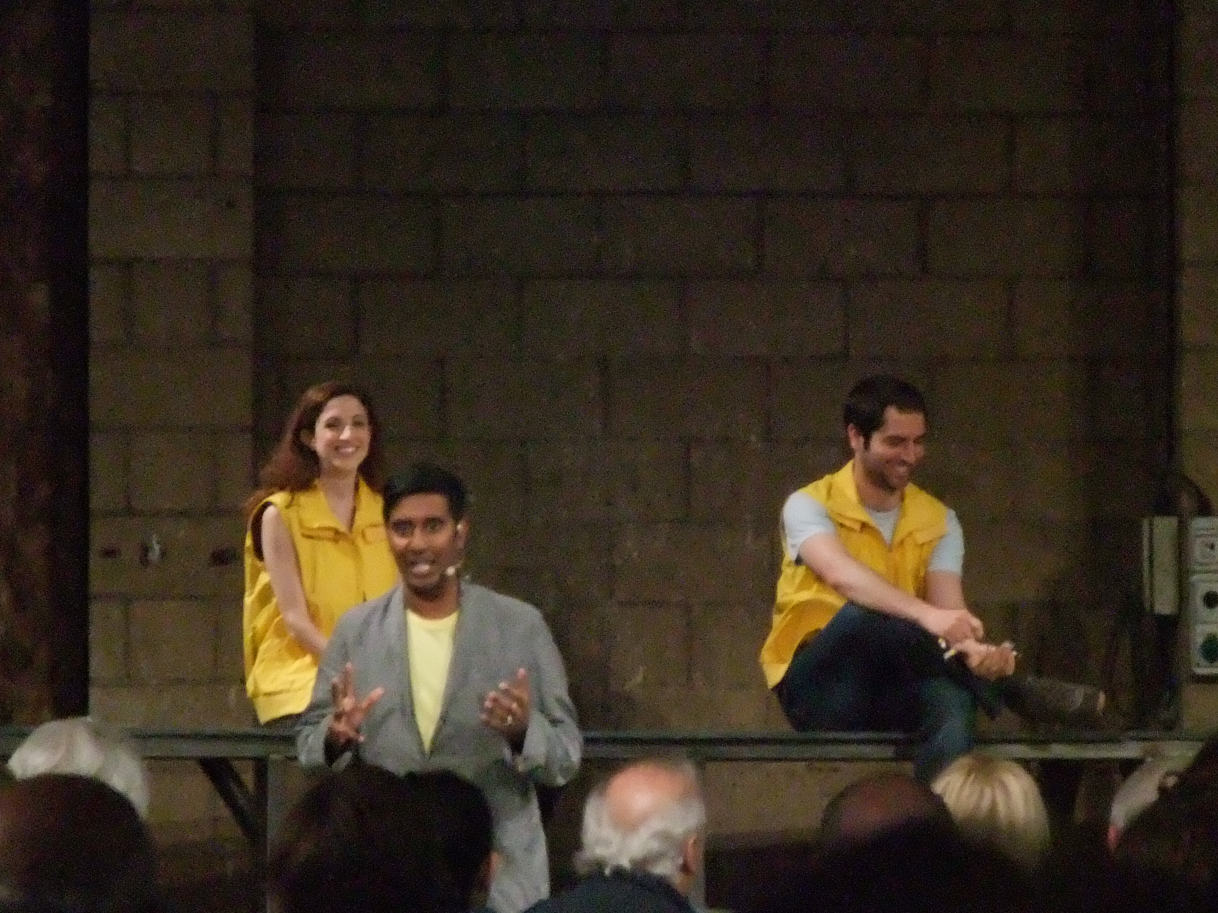 scene 3, Helicopter String Quartet, from Karlheinz Stockhausen's opera Mittwoch aus Licht. Birmingham Opera production, Argyle Works, Digbeth, Birmingham, 23 August 2012. Introduction: Laura Moody, DJ Nihal, Vincent Sipprell. Photograph by Jerome Kohl.